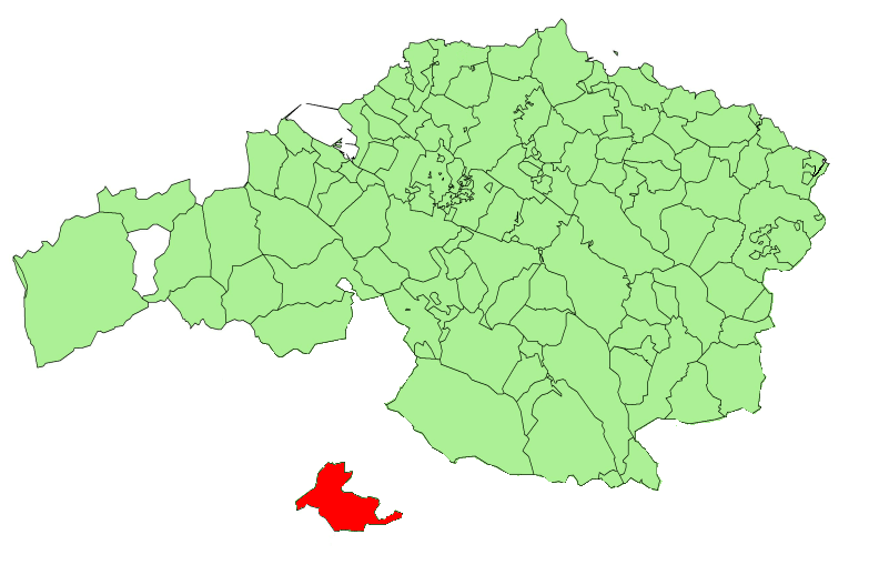 Urduña-Orduña municipality in the province of Biscay